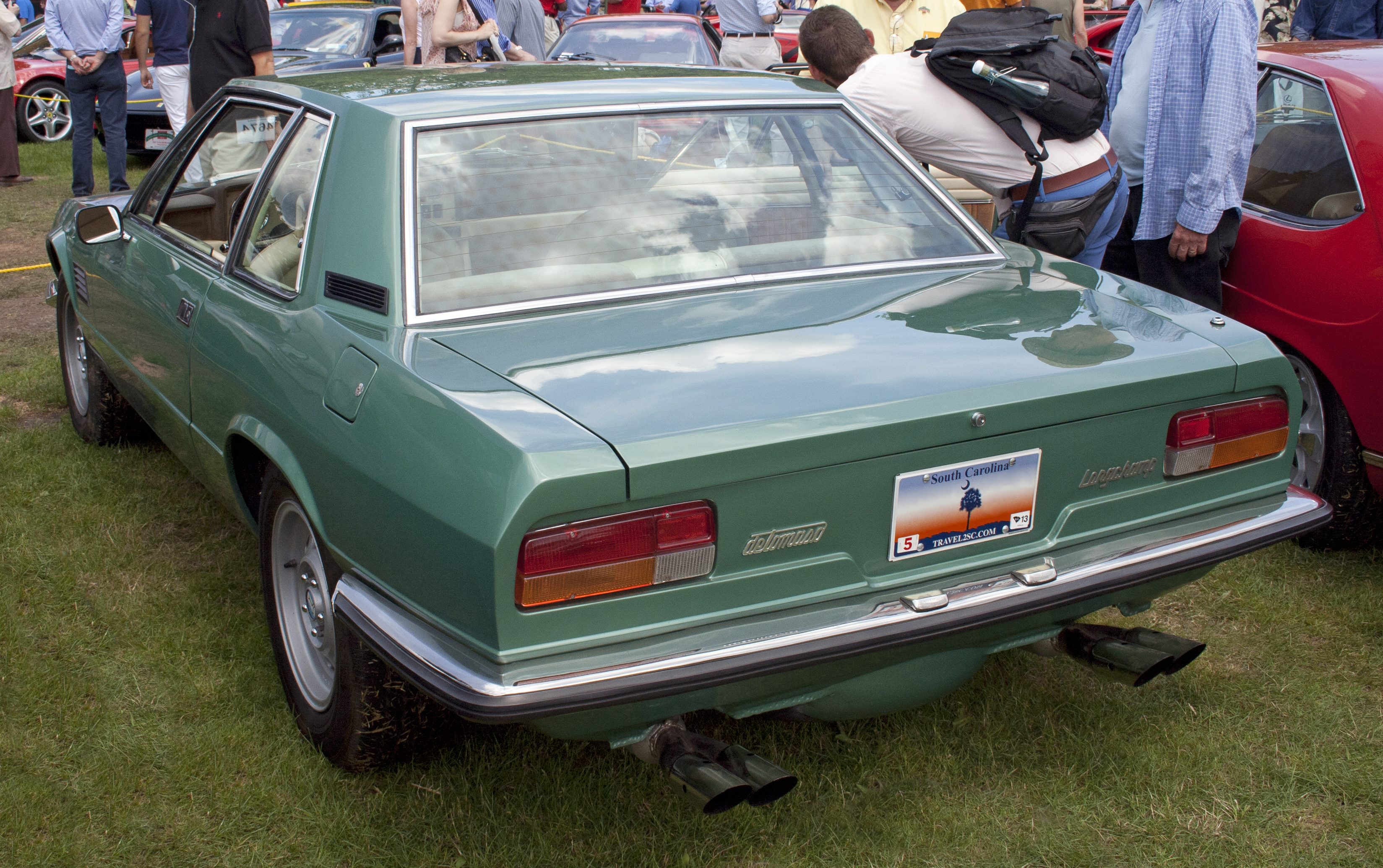 1974 De Tomaso Longchamp, seen at the 2012 Greenwich Concours d'Elegance next to an Iso Lele.